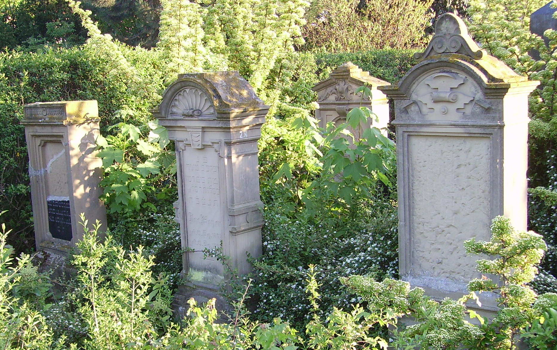 view of Mutterstadt, Germany